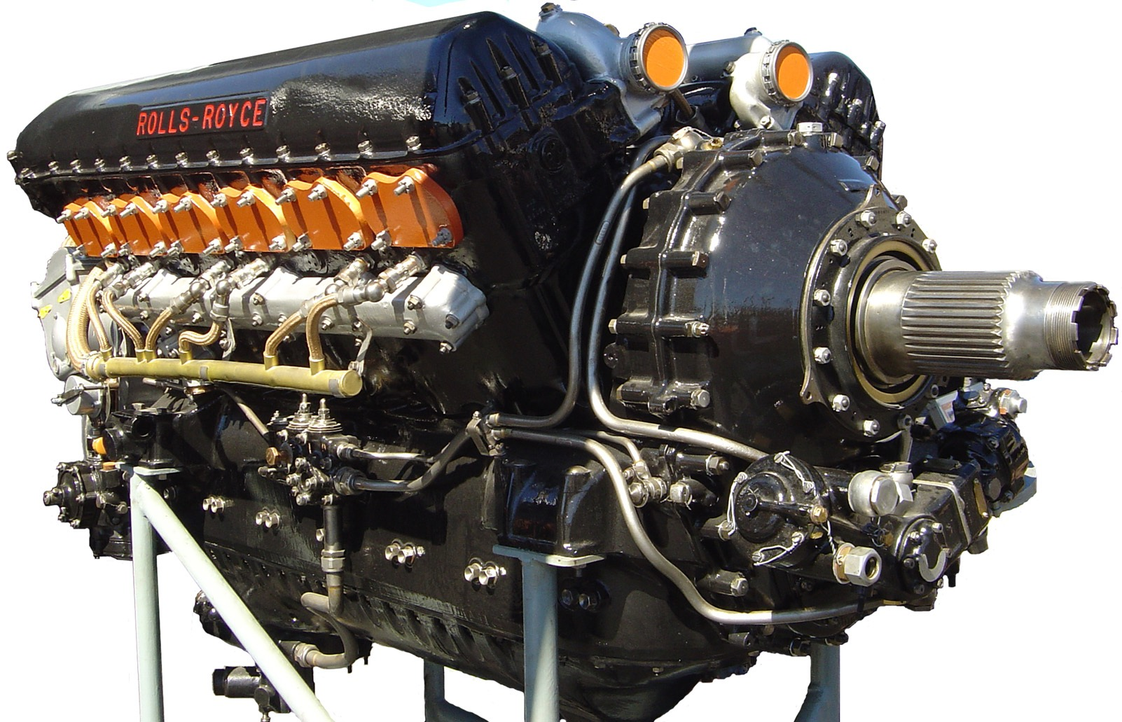 A Rolls-Royce Merlin engine photographed at Pearce Air Force Base Western Australia.